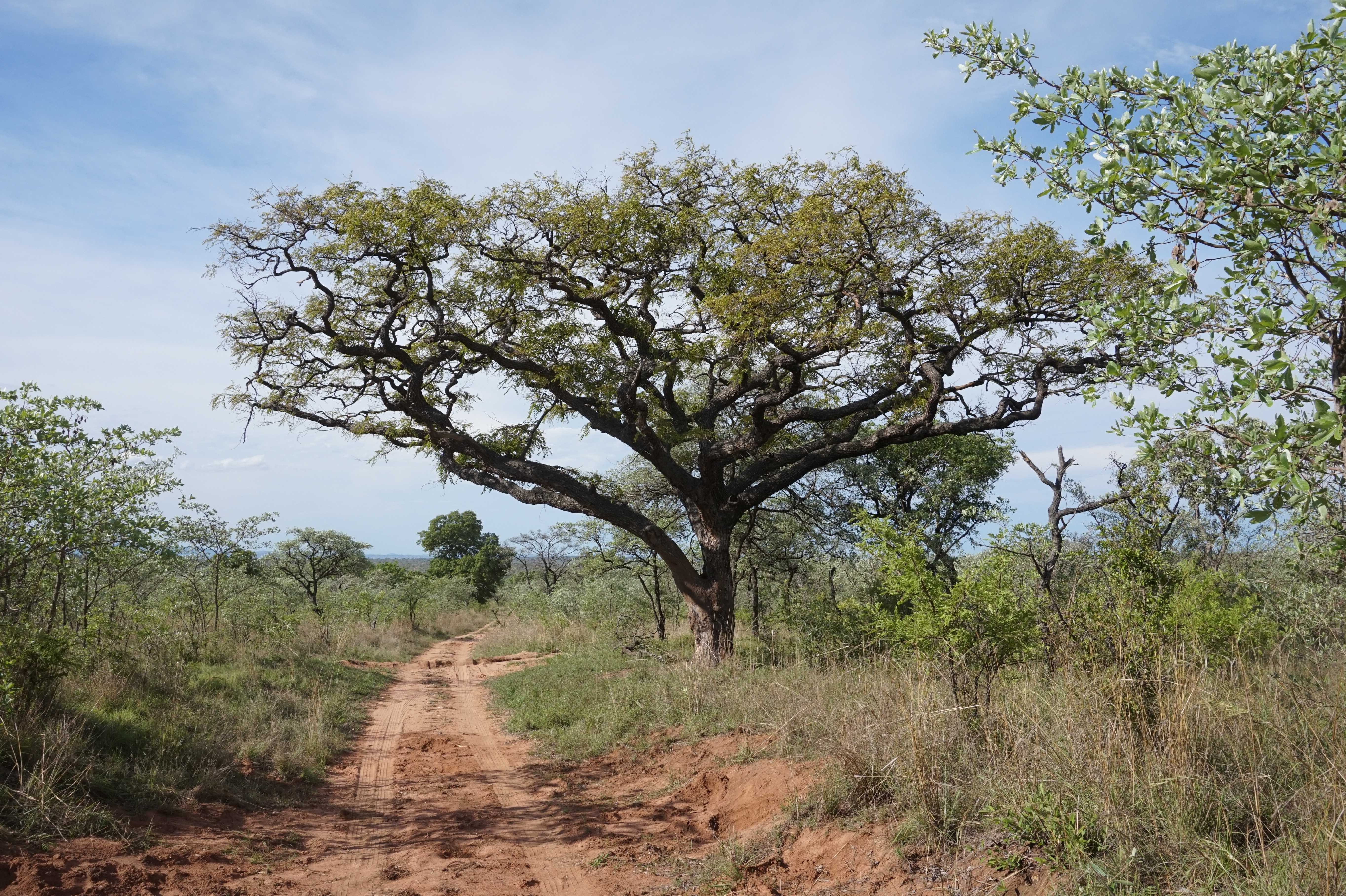 Madlabantu Trail, Kruger Park, South Africa